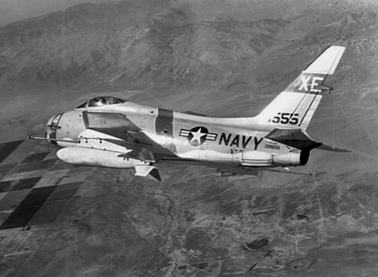 A U.S. Navy North American FJ-4B Fury (BuNo 139555) from Experimental Squadron VX-5 carrying a Mark 12 nuclear bomb (shape) over the Naval Air Weapons Station China Lake, California (USA).The FJ-4B 139555 was damaged in a ground accident at China Lake on 23 September 1959 and written off.